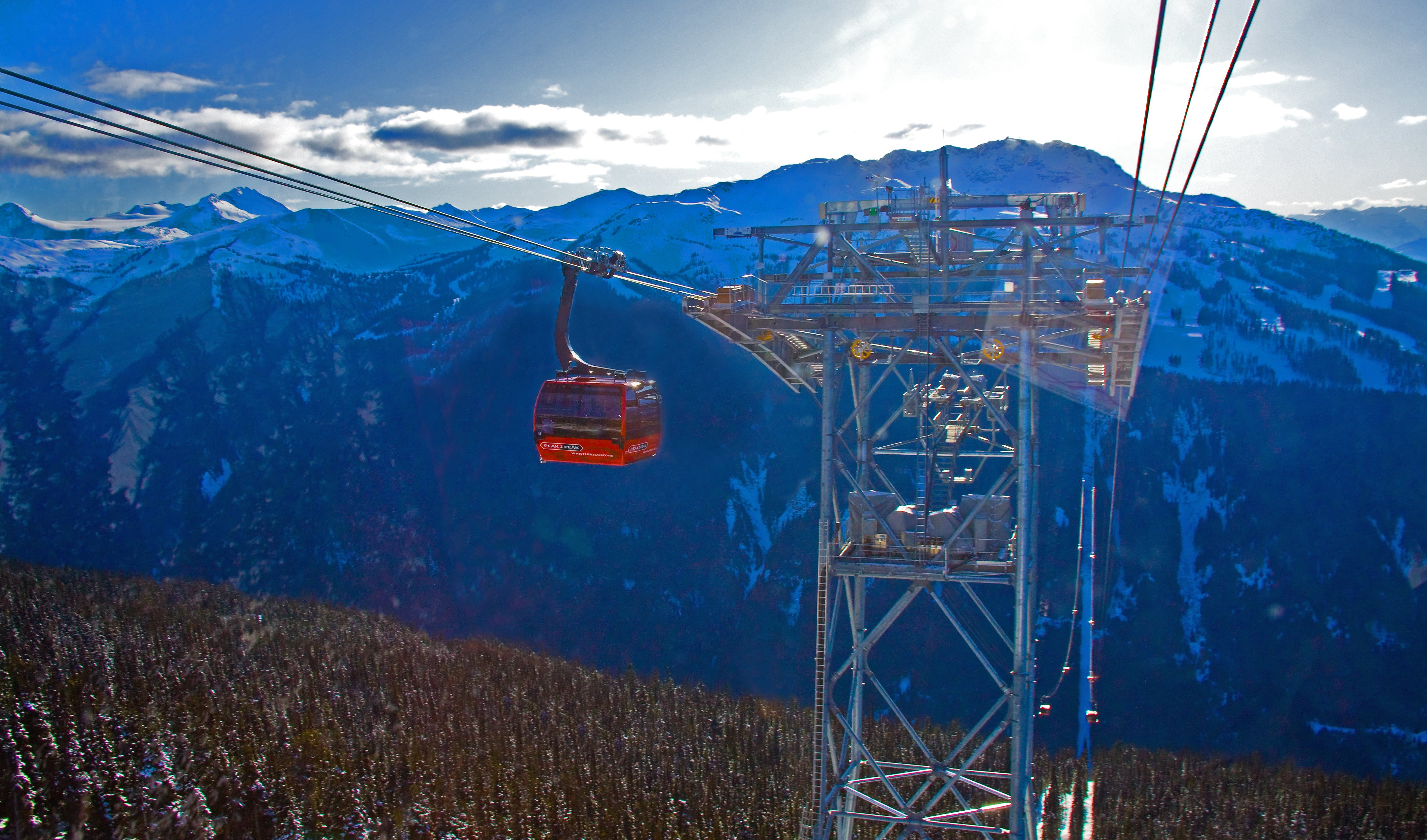 A spectacular and breathtaking ride. The Peak-2-Peak Gondola linking Whistler peak with Blackcomb peak 2.8 mile (4.5 km) across the Fitzsimmon's Valley. To the right of the tower the longest unsupported gondola run in the world - 1.8 miles (2.9 km) - is visible. This is the view from the Blackcomb side looking back at Whistler mountain. The tower in the frame is the second of the two Blackcomb towers before the drop into the valley. There are only two other towers on the Whistler side. At the botton of the cable drop in the picture you are 1400 feet above the valley floor and almost a mile from the closest tower.